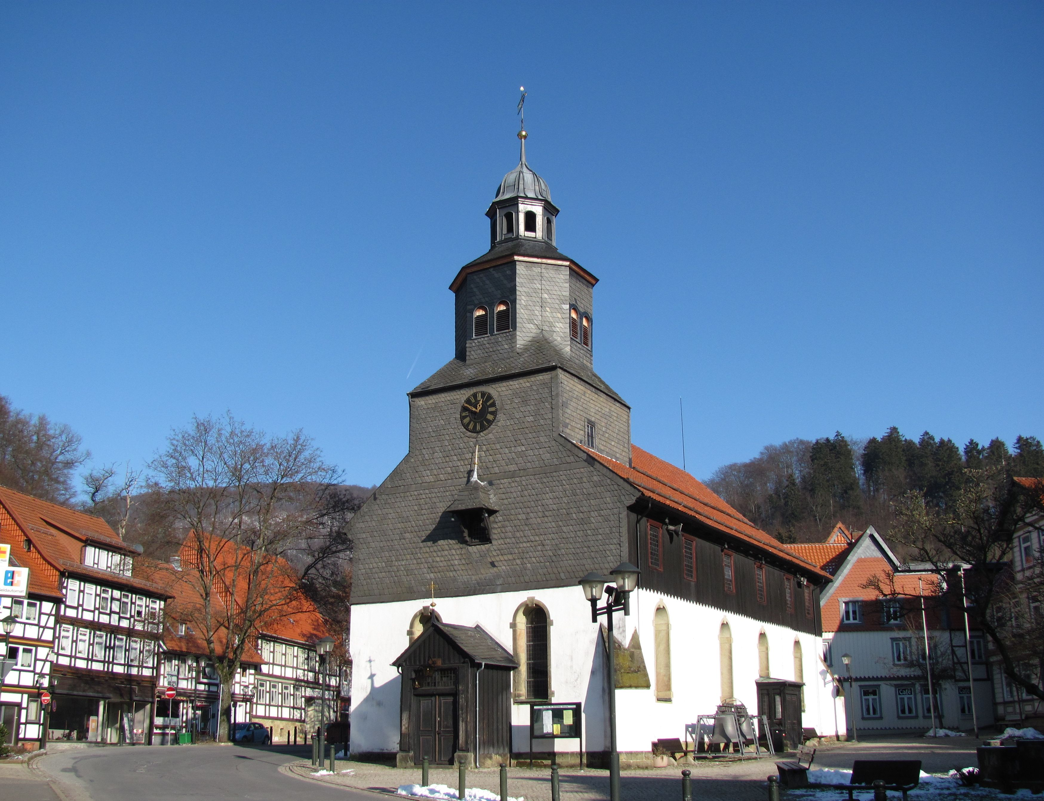 Market Place, Bad Grund, Harz Mountains,Germany